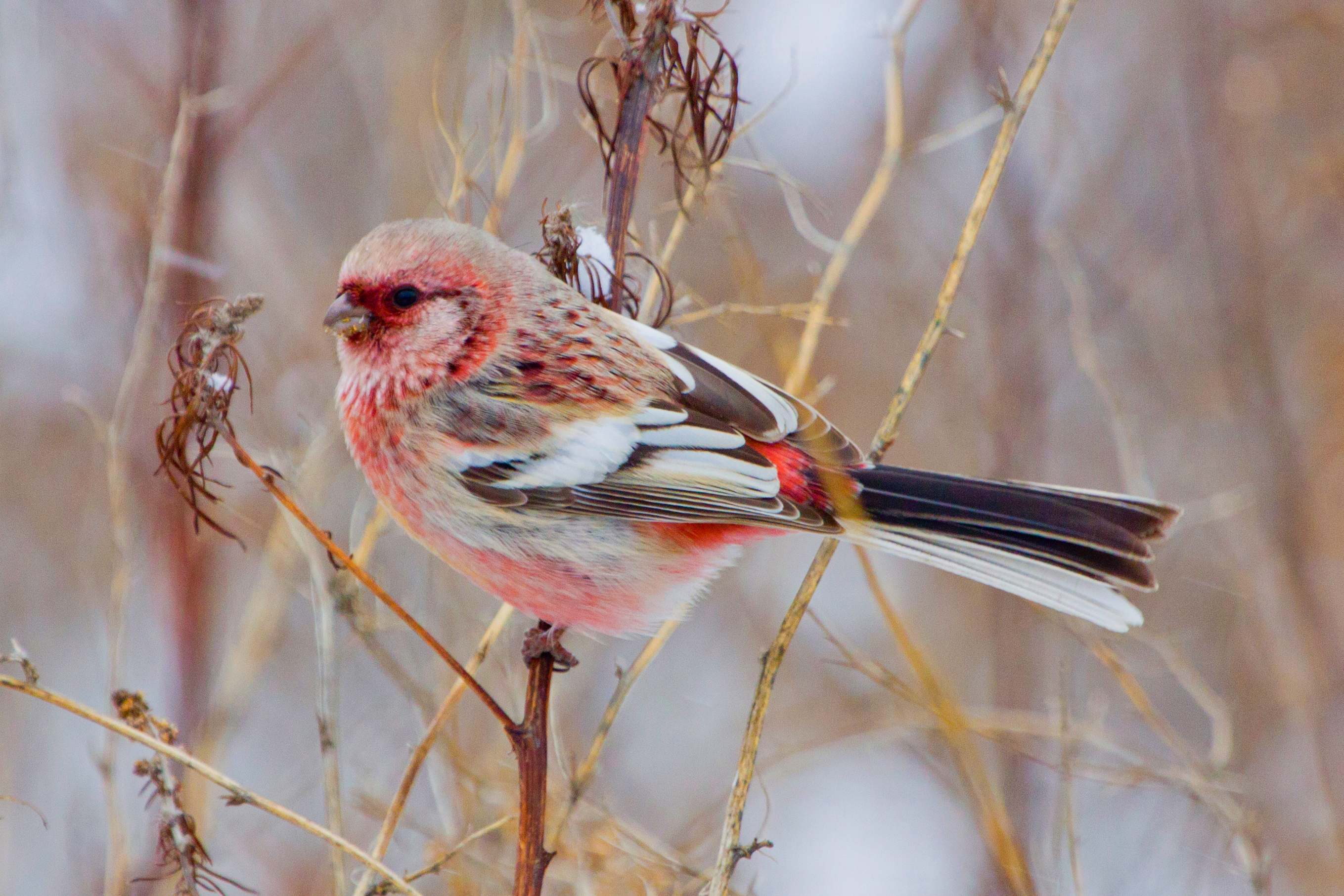 Uragus sibiricus (male), in Chelyabinsk city, Chelyabinsk Oblast, Russia